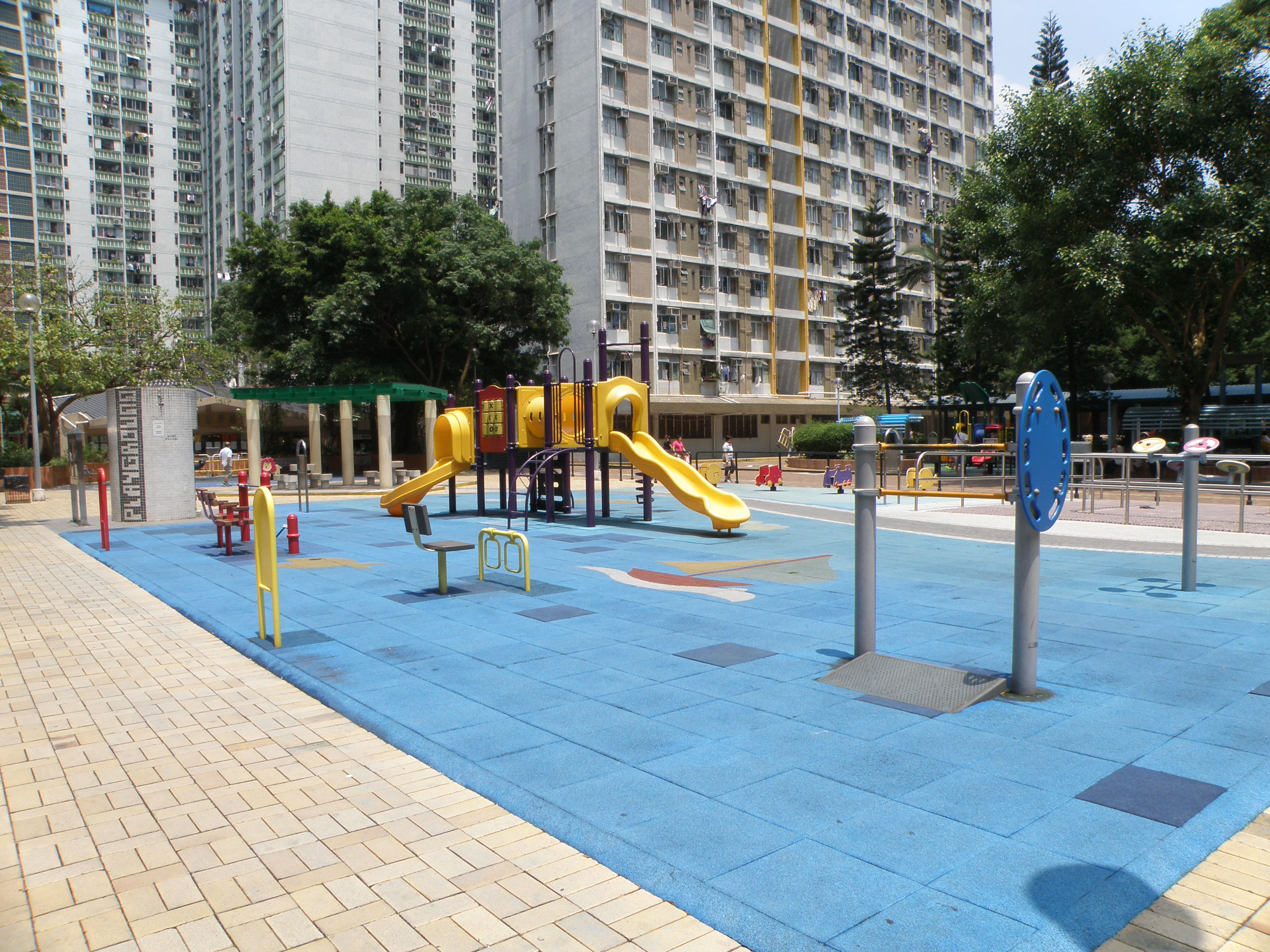 Shun Tin Estate in Sau Mau Ping, Hong Kong.